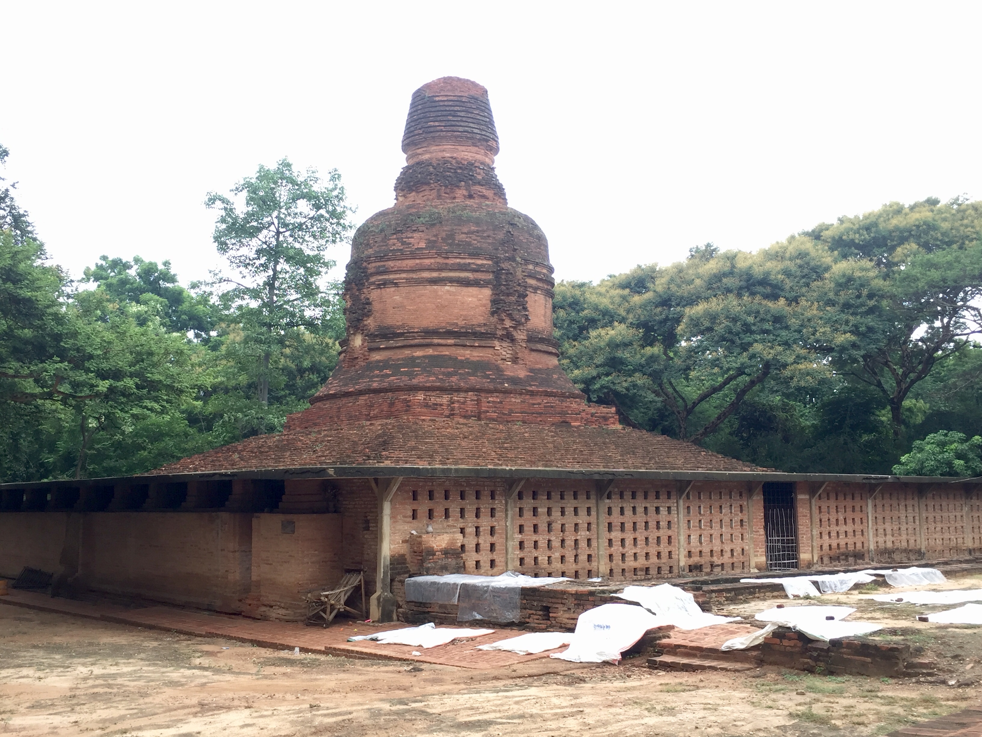 အနောက်ဖက်လိပ်ဘုရား စေတီပုထိုးအမှတ် = ၁၀၃၁/၄၂၁